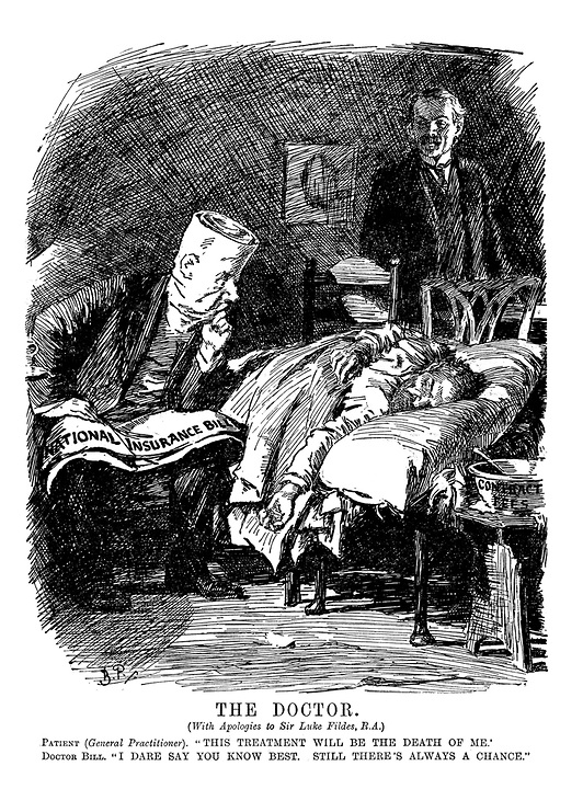 The Doctor. (With apologies to Sir Luke Fildes, R.A.) Patient (General Practioner). "This treatment will be the death of me." Doctor Bill. "I dare say you know best. Still there's always a chance."